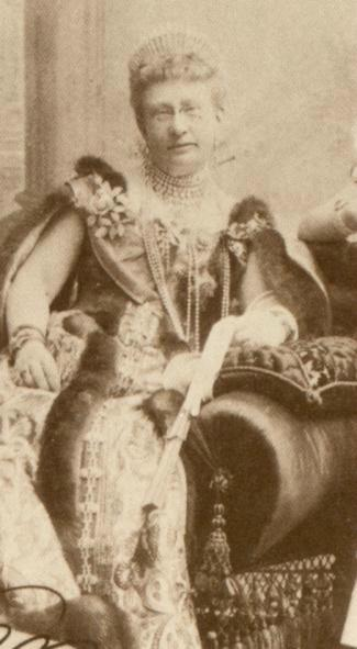 Grand Duchess Vera Konstantinovna of Russia